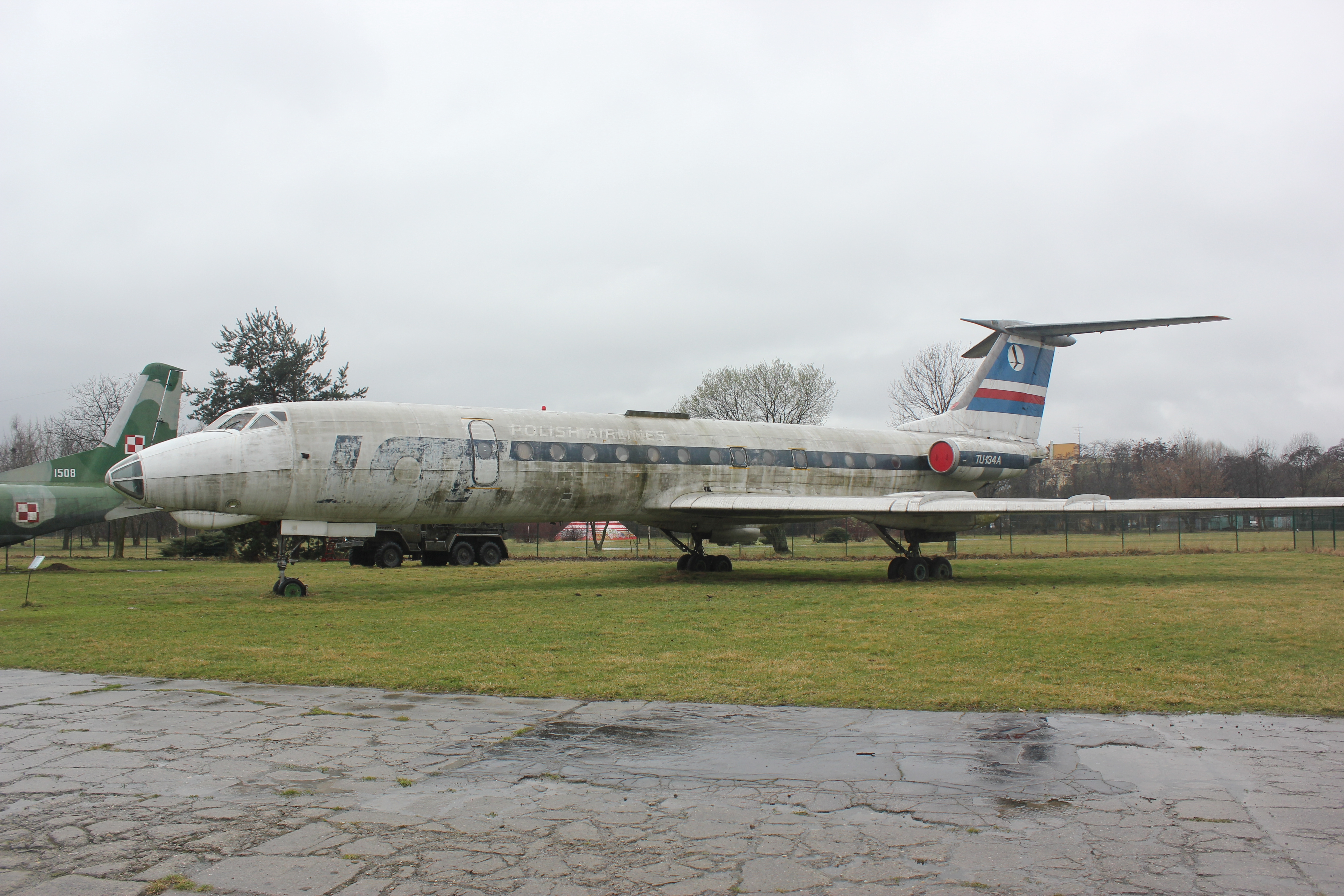 Kraków - Polish Aviation Museum - Tupolev Tu-134A